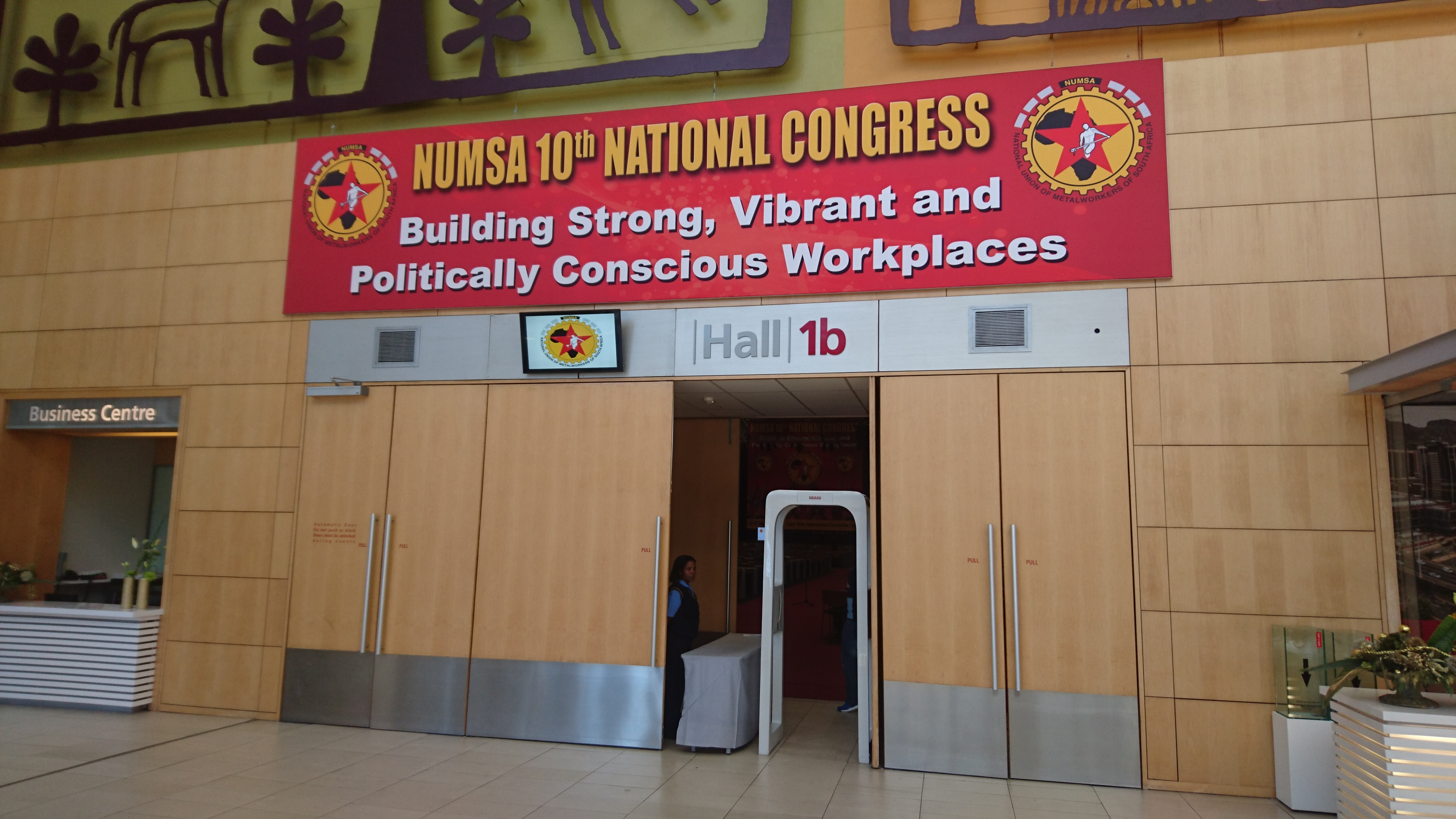 The 2016 NUMSA conference at the Cape Town International Convention Centre.